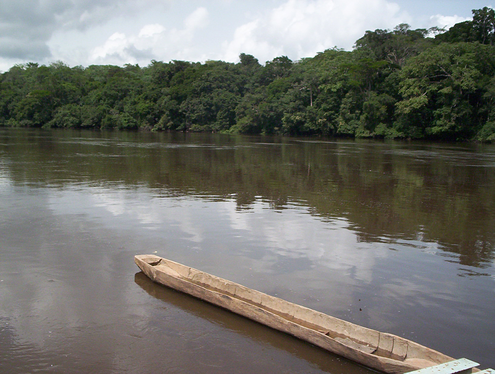 Pirogue on the Dja River in Cameroon's East Province, south of Lomié and north of Ngoila.